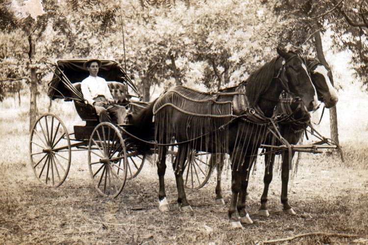 Subject: Horse and buggy Photographer: Unknown (family photo of User:Nv8200p) Date: circa 1910 Location: Eakly